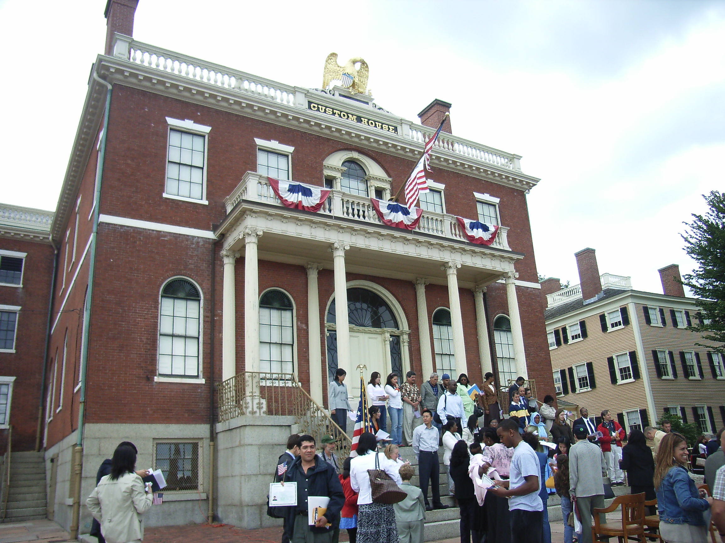 Naturalization ceremony on Citizenship Day 2007 (Monday 2007-09-17) on the stairs of the Custom House, Salem Maritime National Historic Site, Salem MA (USSLM